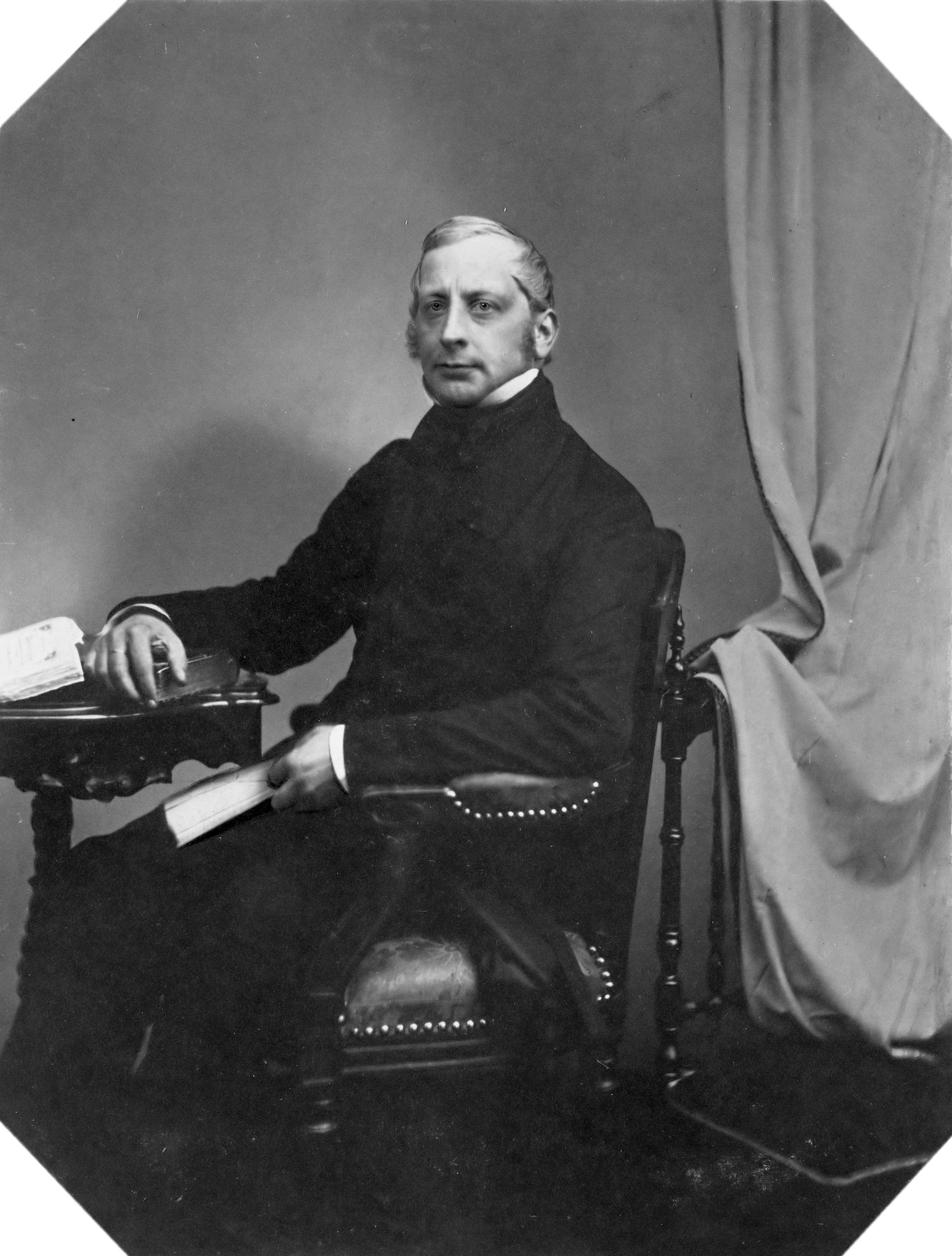 Christiaan Pieter van Eeghen (1816-1889) 1857